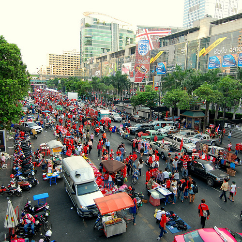 UDD (Red Shirt) protesters on 8th April 2010 near the Ratchaprasong intersection, Bangkok, Thailand